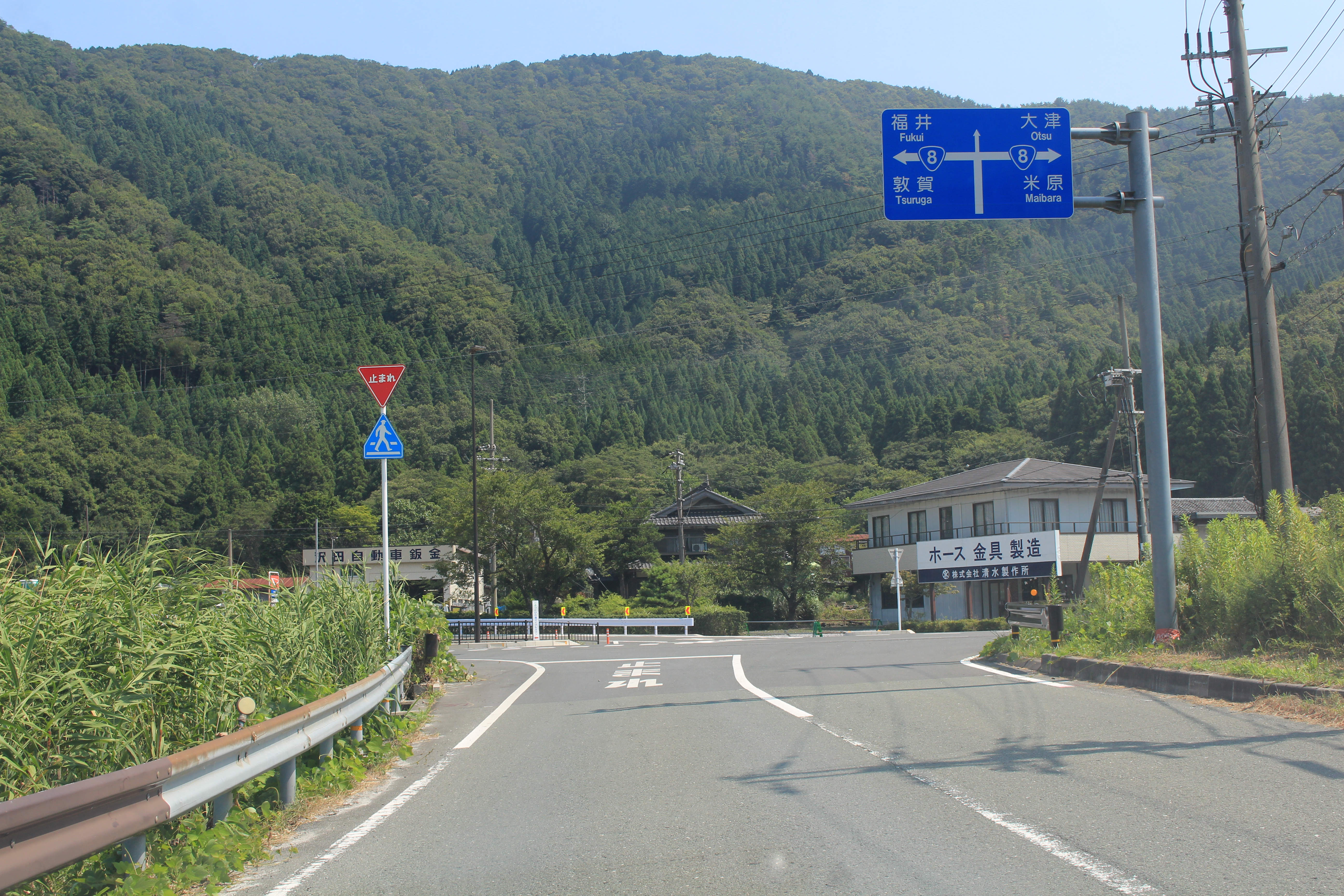 Shiga Prefectural Road Route 336 in Shiotsuhama, Nishoazaicho, Nagahama, Shiga prefecture, Japan.